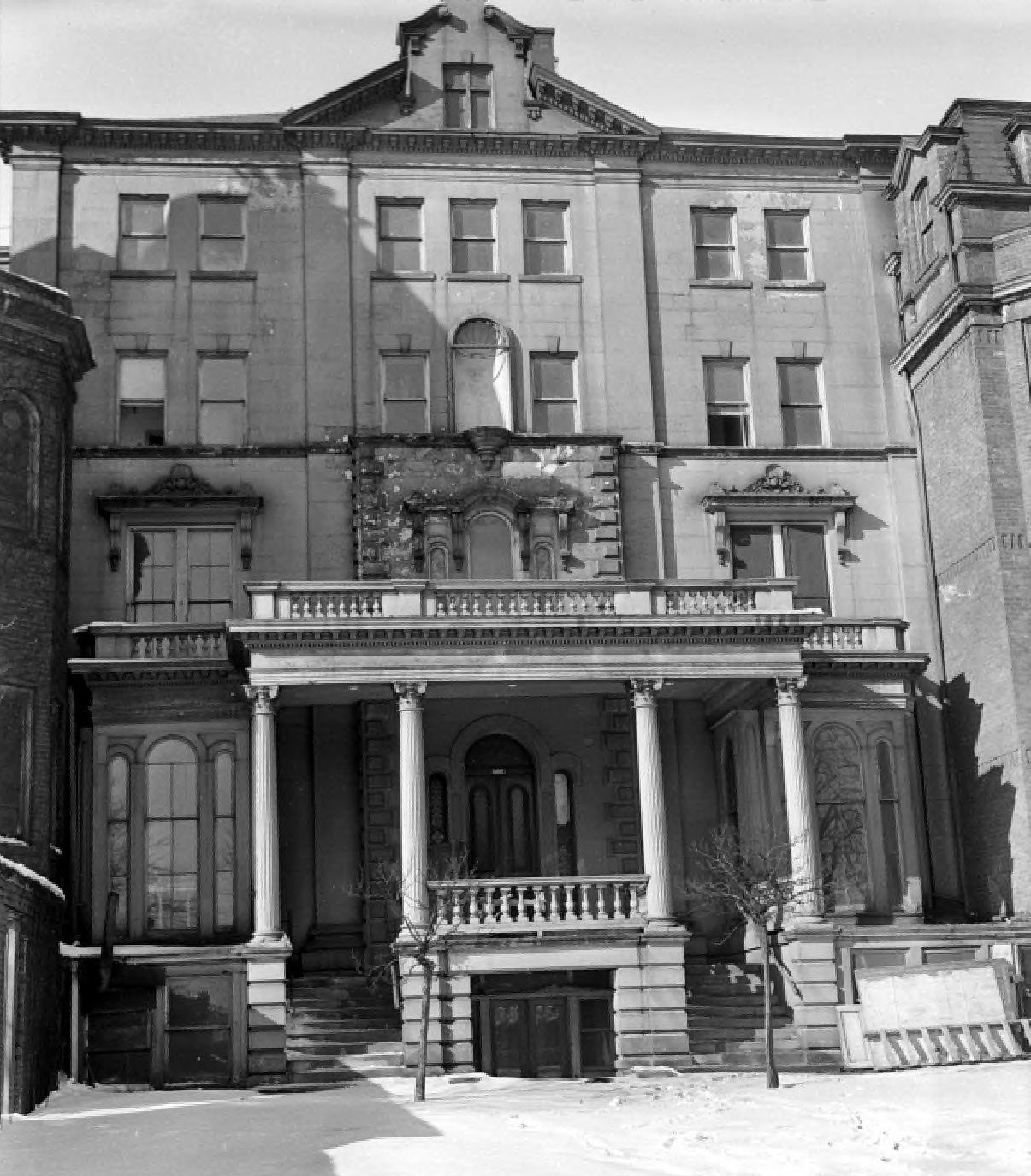 The Eber B. Ward House (1860) is buried in there - first and second floors. Eber B. Ward house at West Fort Street and 19th. Captain Eber Brock Ward was a ship owner and steel magnate. According to W. Hawkins Ferry, he was "the most enterprising and wealthiest man in Michigan upon his death in 1875. Considerably altered and enlarged, his former residence became the House of the Good Shepherd".